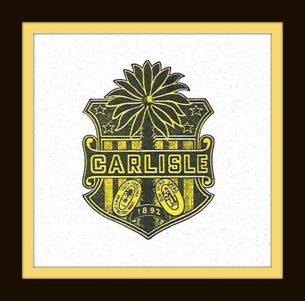 Carlisle Military Crest, which is in the public domain